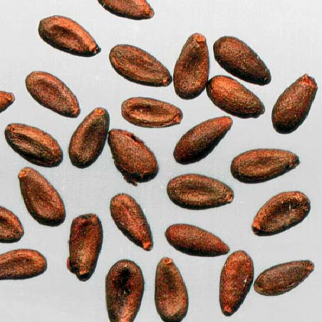 Berberis thunbergii seeds